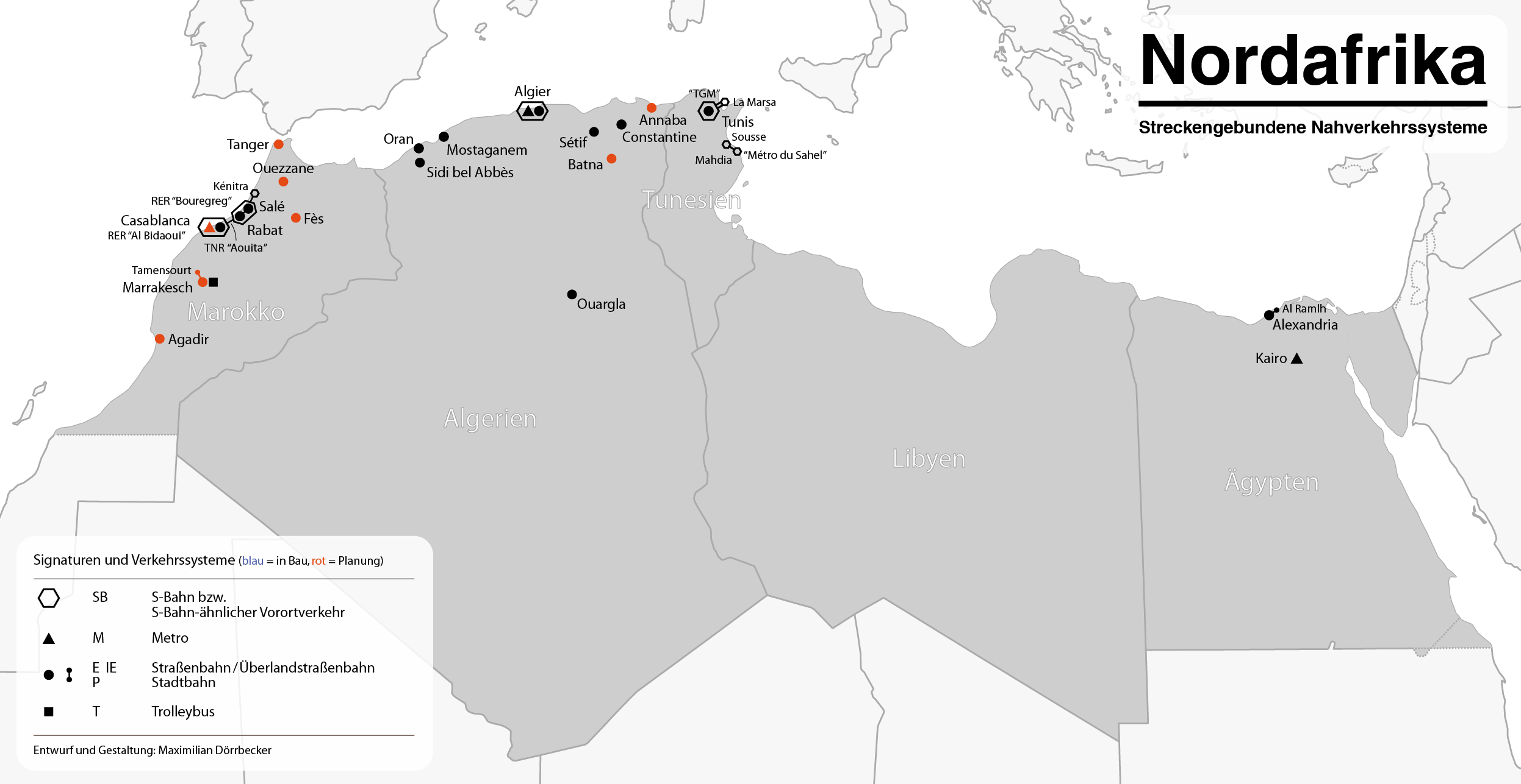 Map of fixed-route public transport systems (suburban railways, Rapid Transit and Light Rail Transit systems, tram, trolleybus) in North Africa